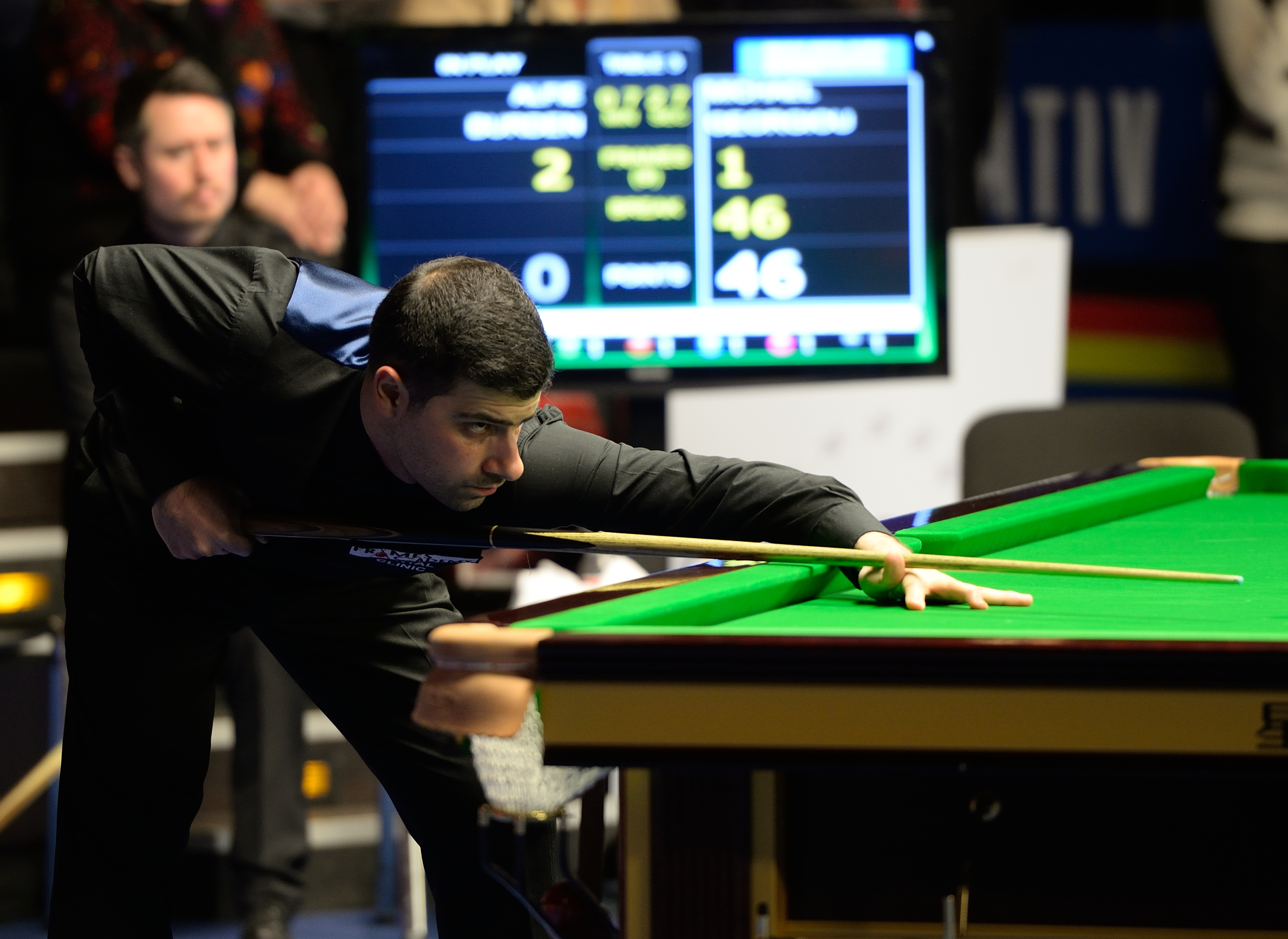 Picture taken in Berlin during the Snooker German Masters in 2015. Michael Georgiou.